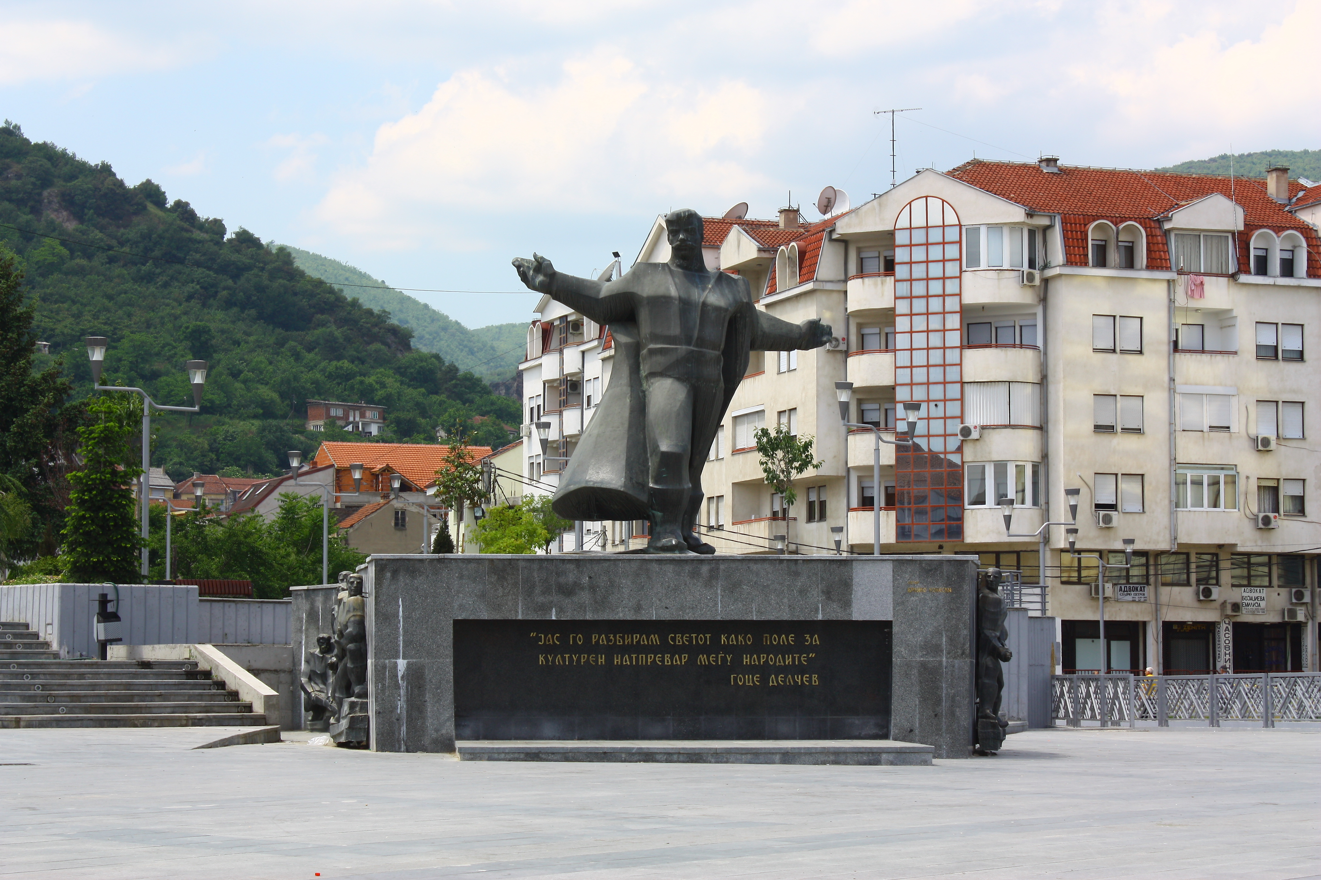 Strumica, Macedonia